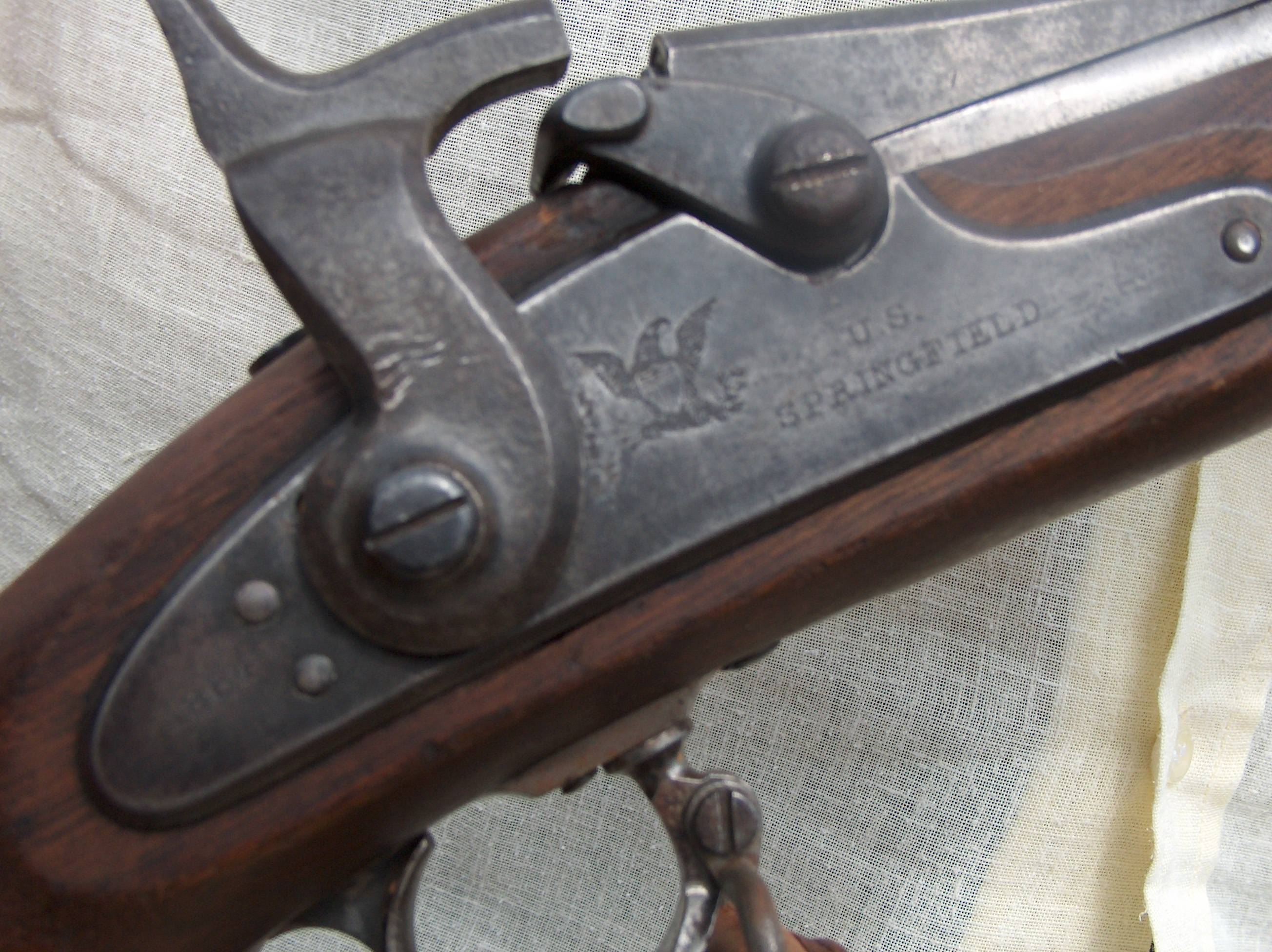 Springfield 1866 (photo taken at Fort Phil Kearney, 25-JULY-2007)